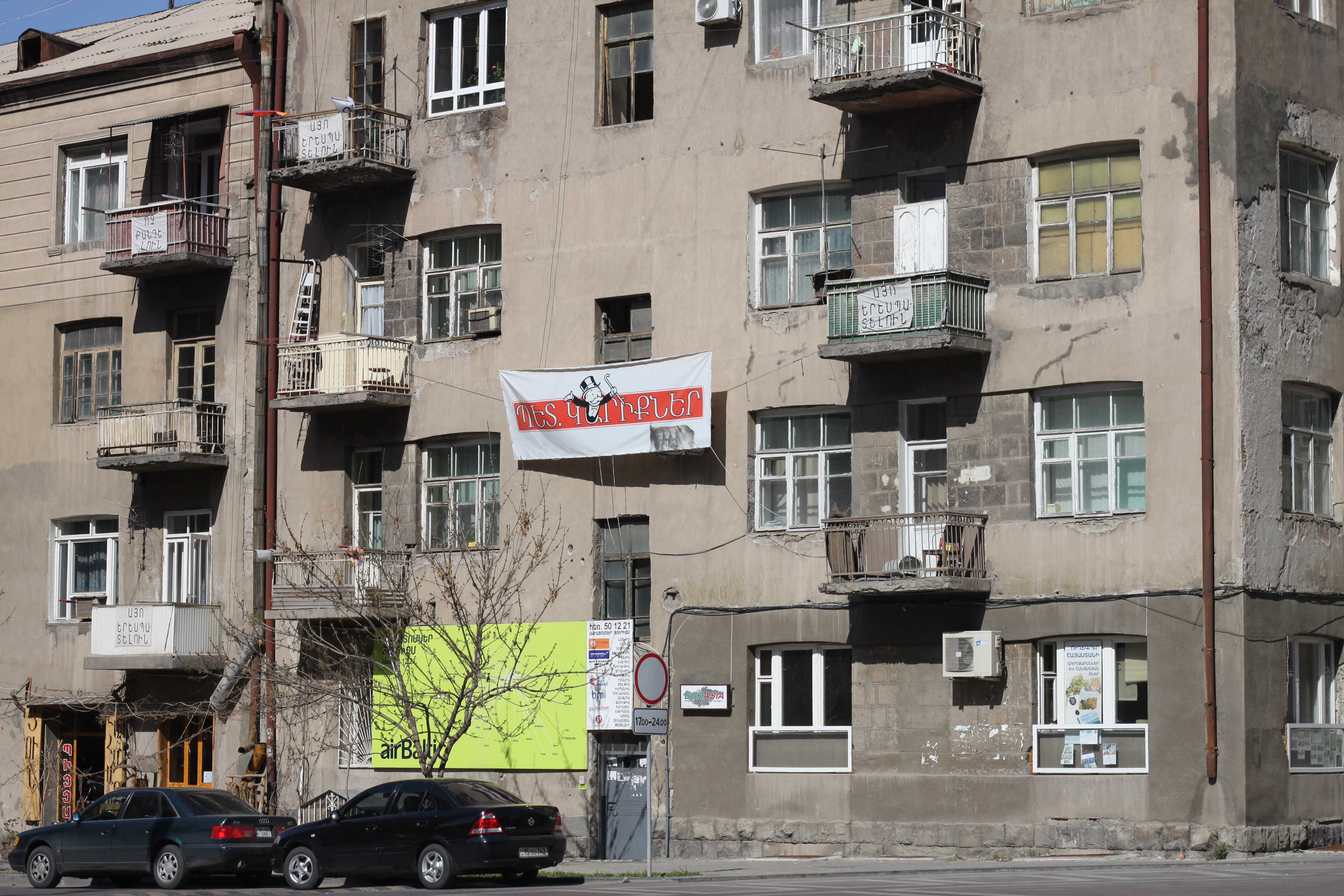 An apartment complex slated for demolition under an "eminent domain" clause in Yerevan's Northern Avenue; residents protest with a banner that reads "State Needs", "Yes to Renovation", "No to Demolition."